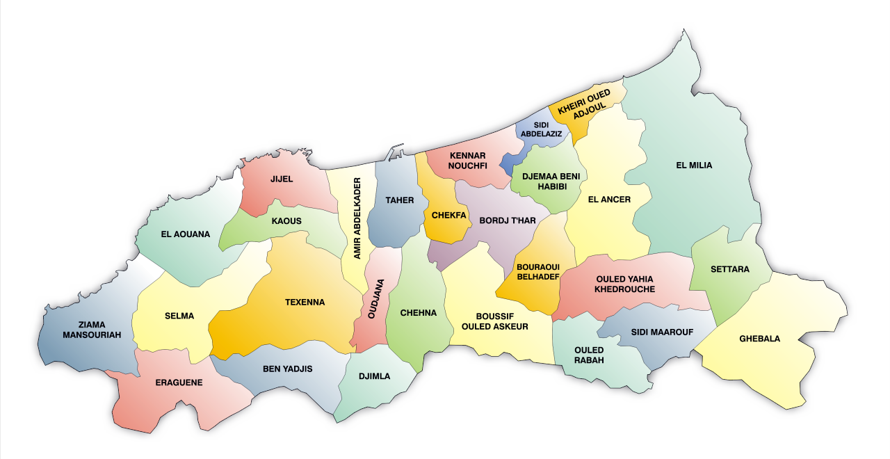 Map of Jijel province (The Municipalities) - Algeria